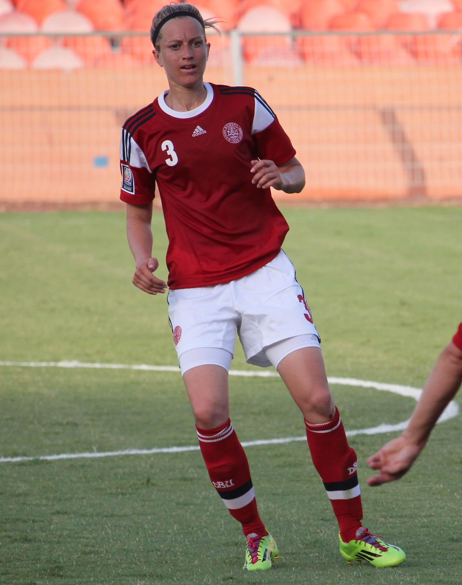 Janni Arnth. Israel - Denmark, 2015 FIFA Women's World Cup qualification UEFA Group 3, 19 June 2014.